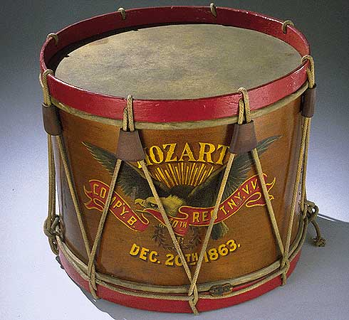 Drum carried by John Unger, Company B, 40th Regiment New York Veteran Volunteer Infantry Mozart Regiment, December 20, 1863